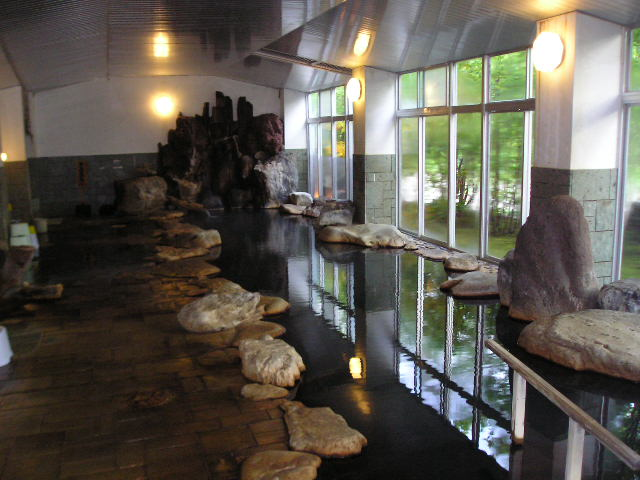 Image of Ginkonyu Onsen Ofuro, Otoshibe, Hokkaido, Japan